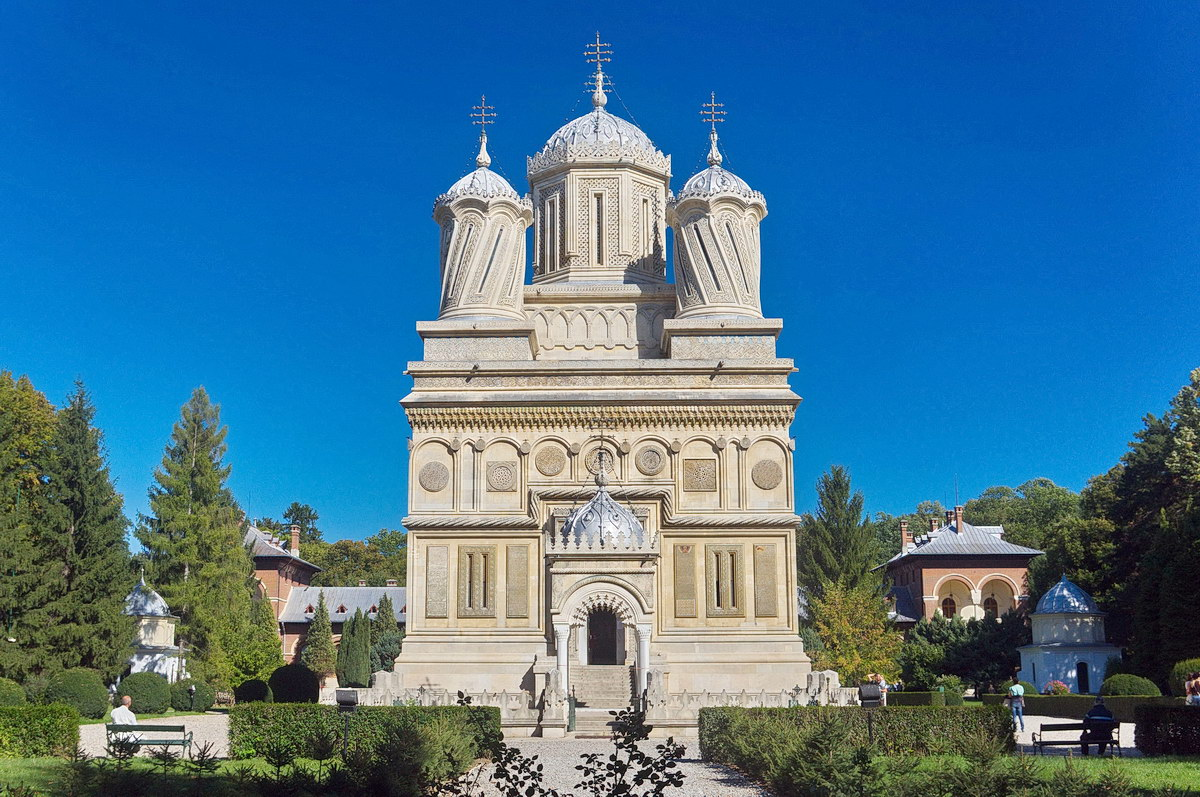 Mânăstirea Argeșului